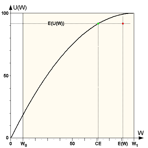 Risk aversion, type 2, case 0